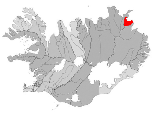 Based on Municipalities of Iceland.png.